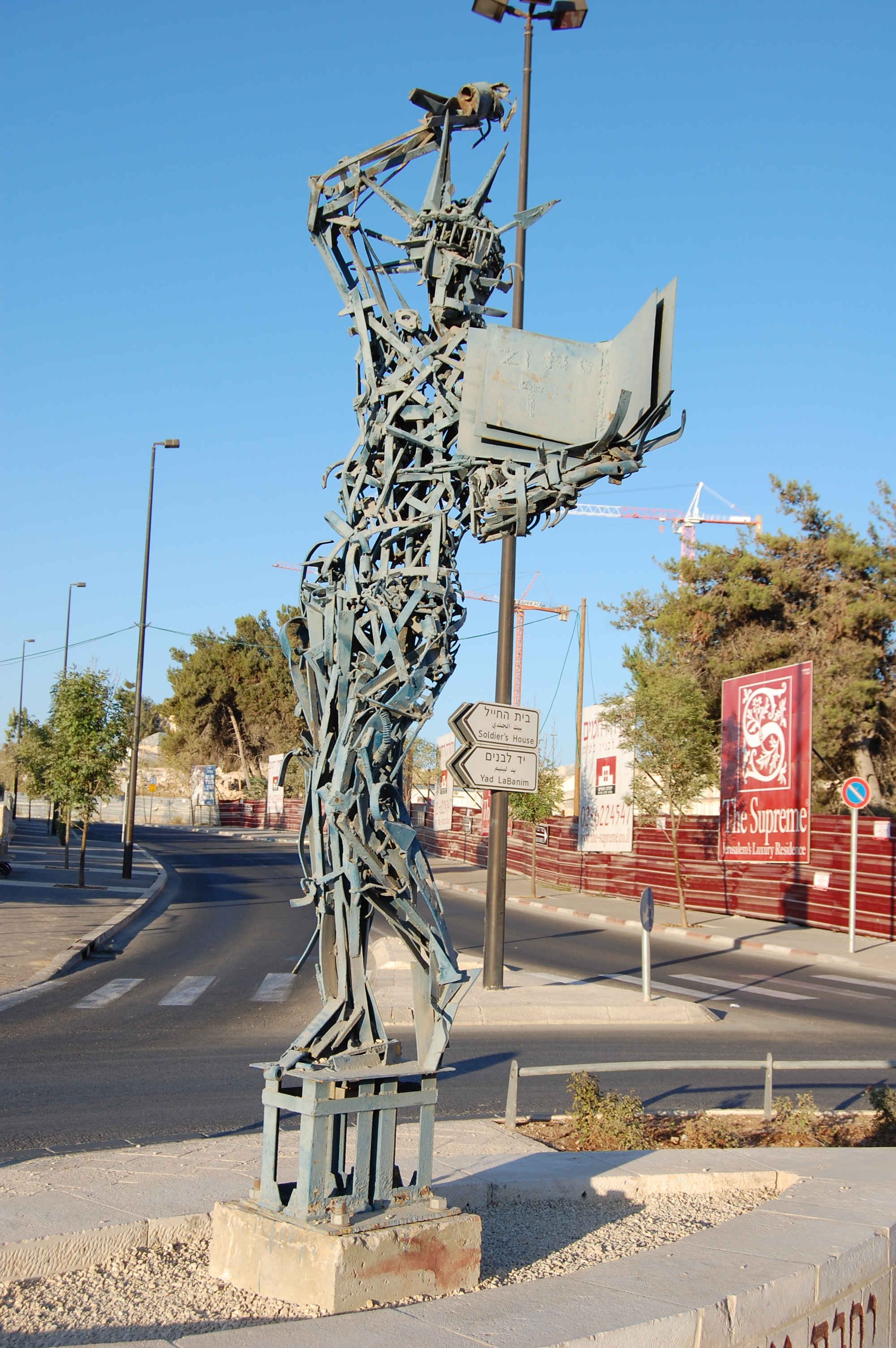 Lady of Liberty replica in jerusalem, New York Square